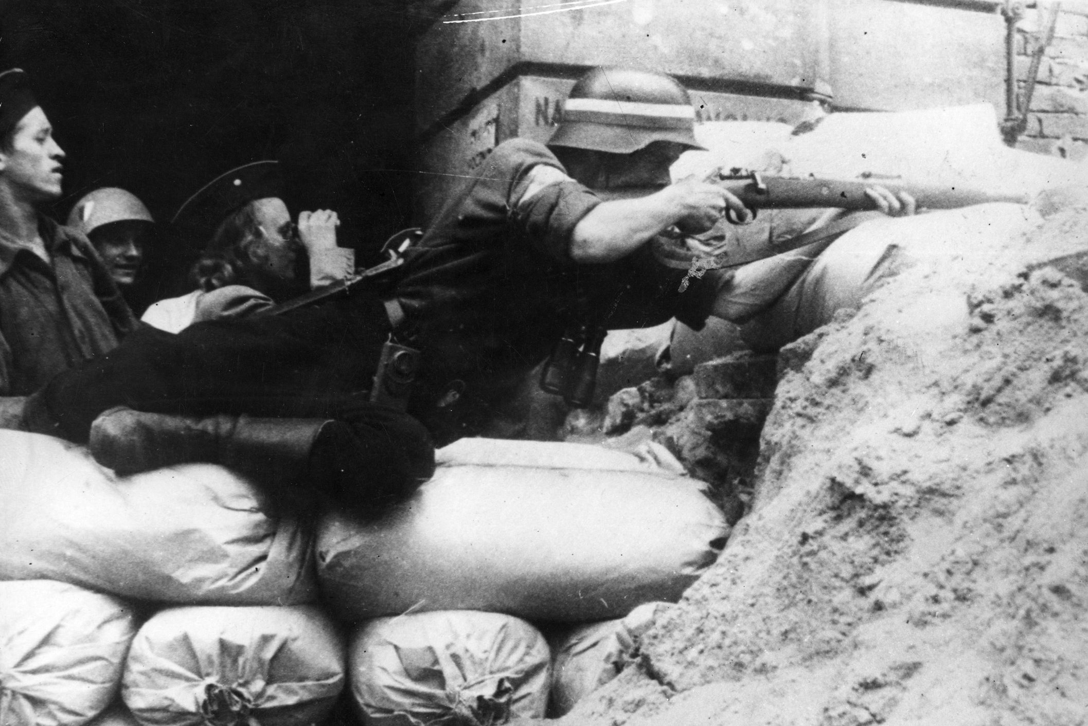 Warsaw Uprising in Poland, 1944. Polish Home Army soldiers defending a barricade.